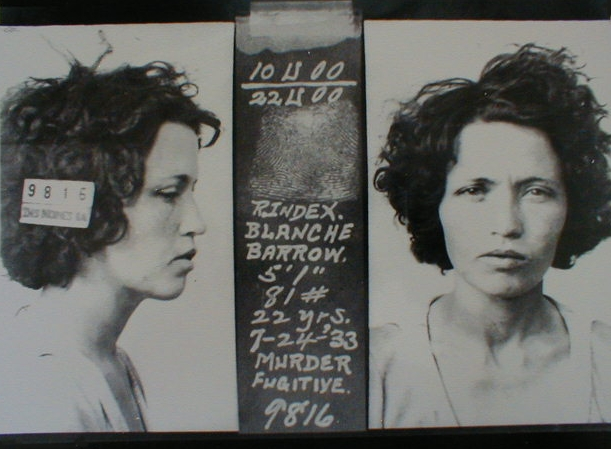 Mug shot of Blanche Barrow after her capture at Dexfield Park, IA, 7/27/33